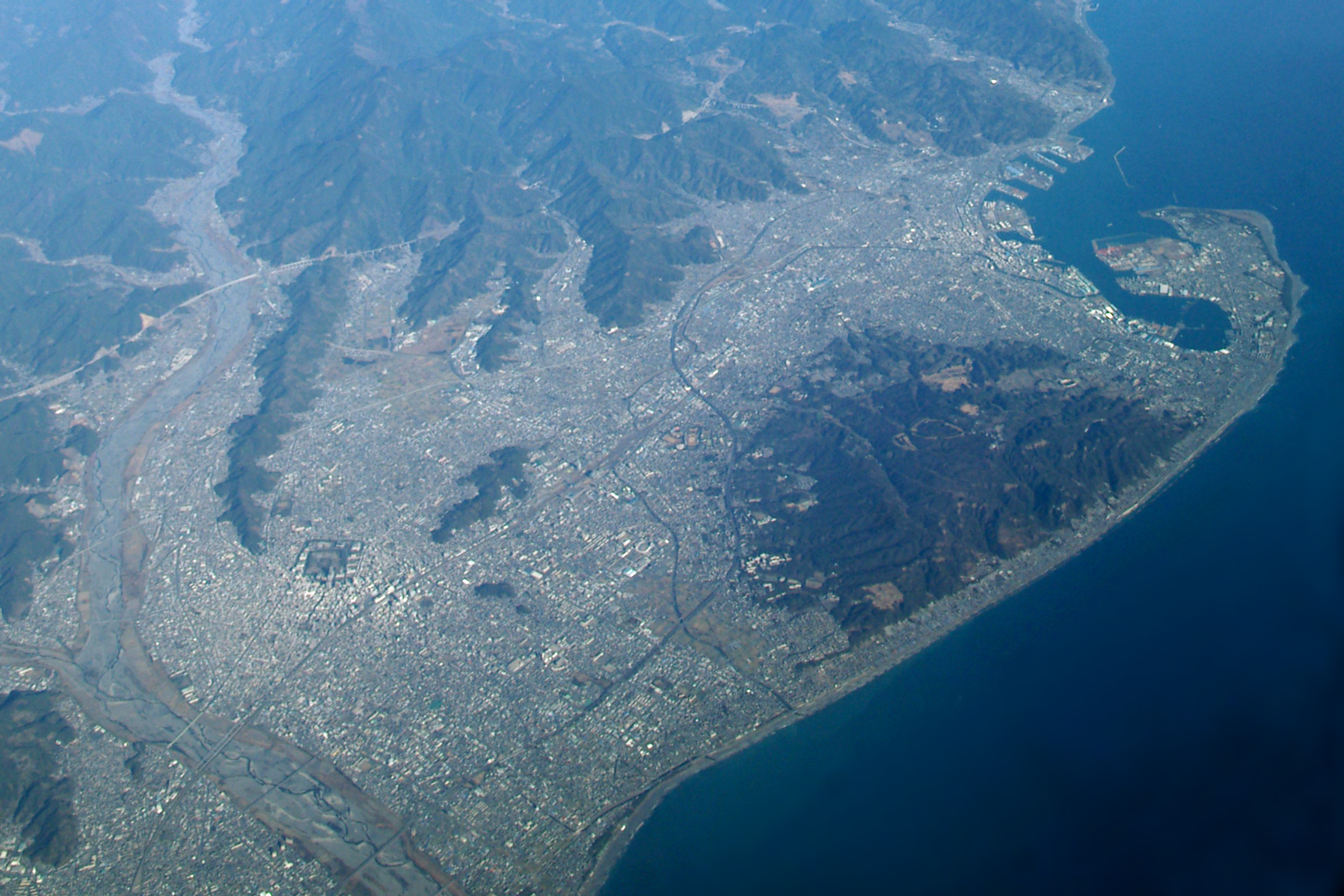 Shizuoka City as seen from the South in Shizuoka Prefecture, Japan. This is a retouched picture, which means that it has been digitally altered from its original version. Modifications: Cropping & Fixing & Color adjustment. Modifications made by Batholith. The original can be found here.